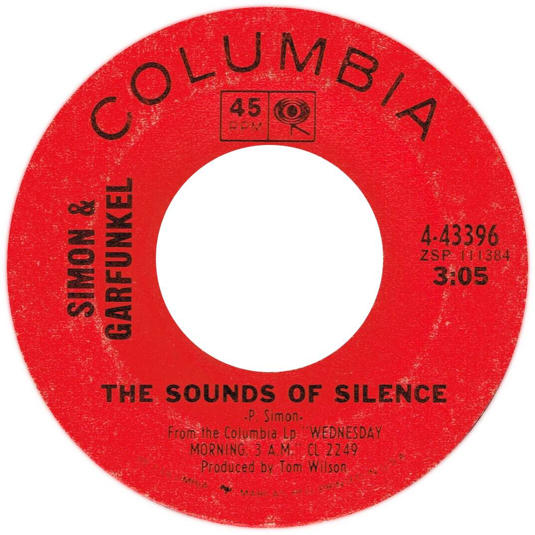 A-side label of the 1965 US vinyl "The Sounds of Silence" by Simon and Garfunkel. This single contains the most familiar remixed/overdubbed recording. The original version is heard at the 1964 album Wednesday Morning, 3 A.M. The remix/overdubbed version is later released as part of the 1966 album Sounds of Silence.